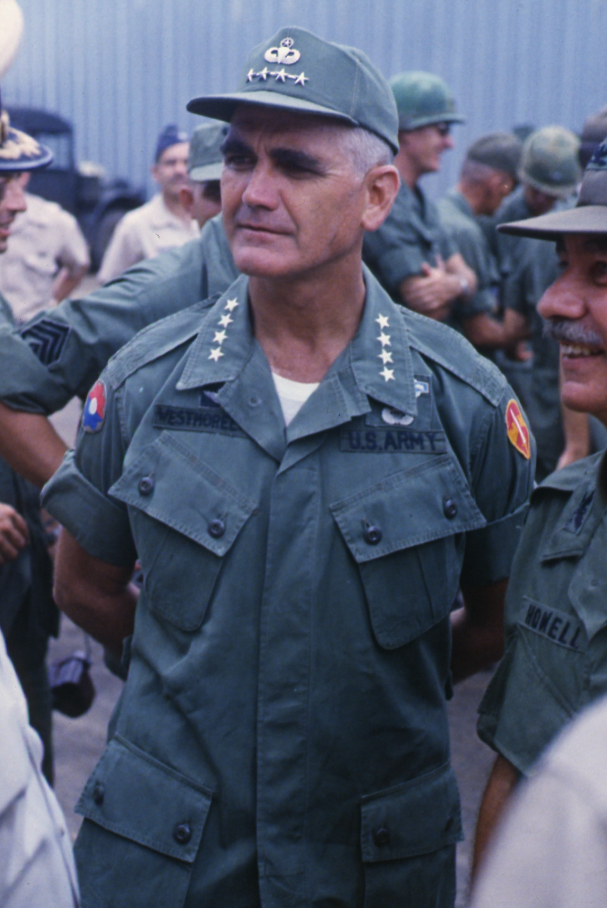 New Port, Vietnam. Queen's Cobra Arrival in Vietnam. General William C. Westmoreland, Commanding General, MACV, watches the ceremonies on the arrival of the Royal Thai Volunteer Regiment in Vietnam.